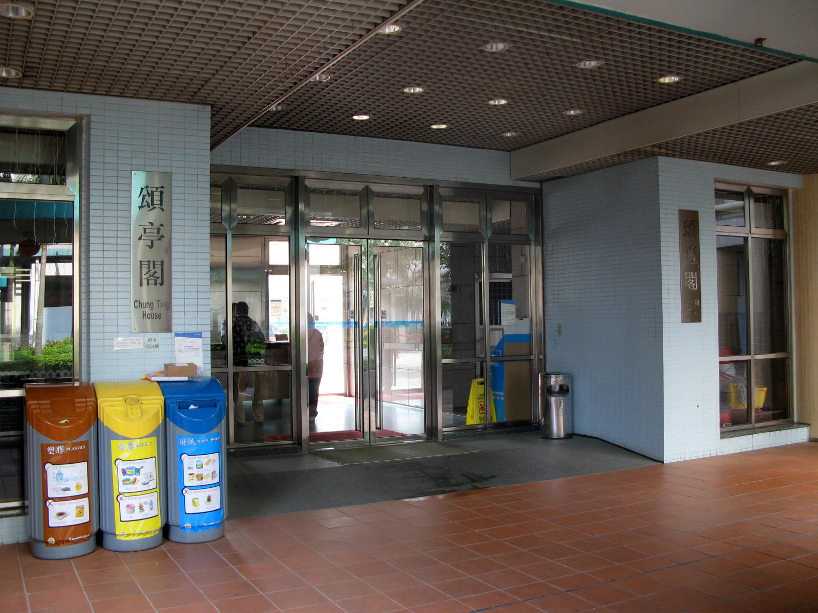 HK Tin Chung Court Residentional Lobby